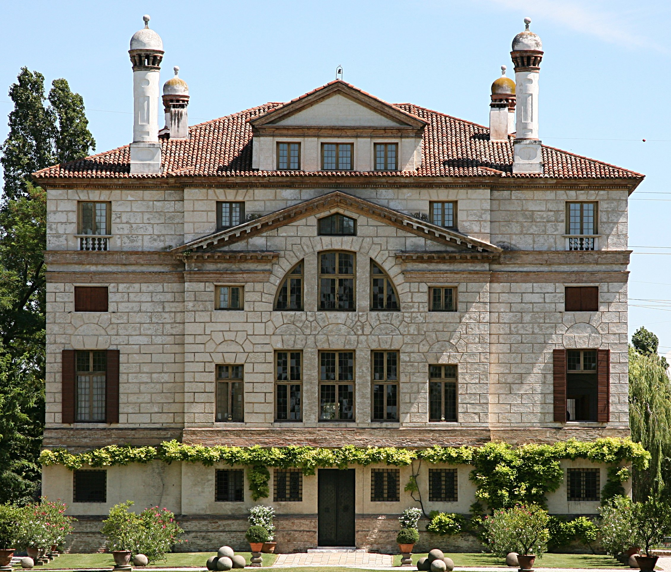 Villa Foscari, also called La Malcontenta. Villa near Venezia by Andrea Palladio.